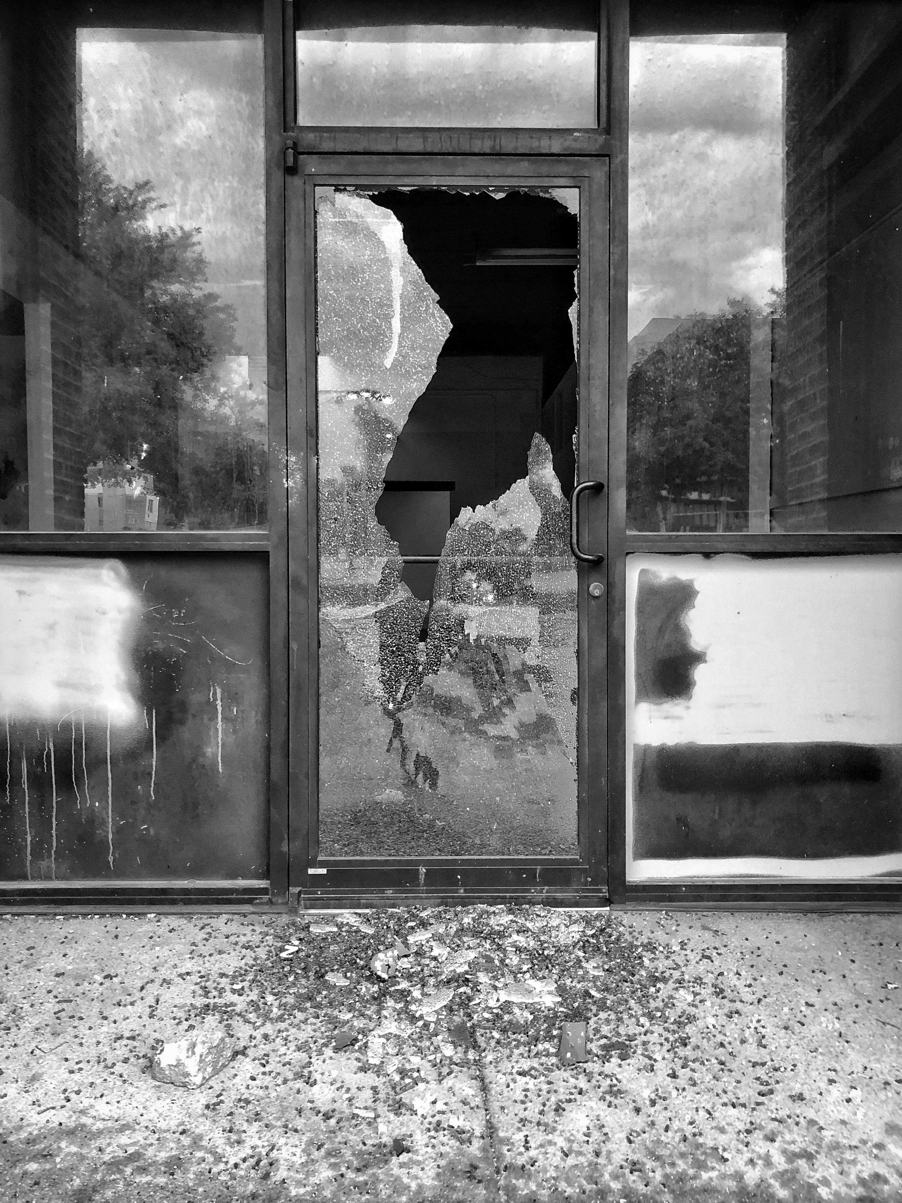 Shattered